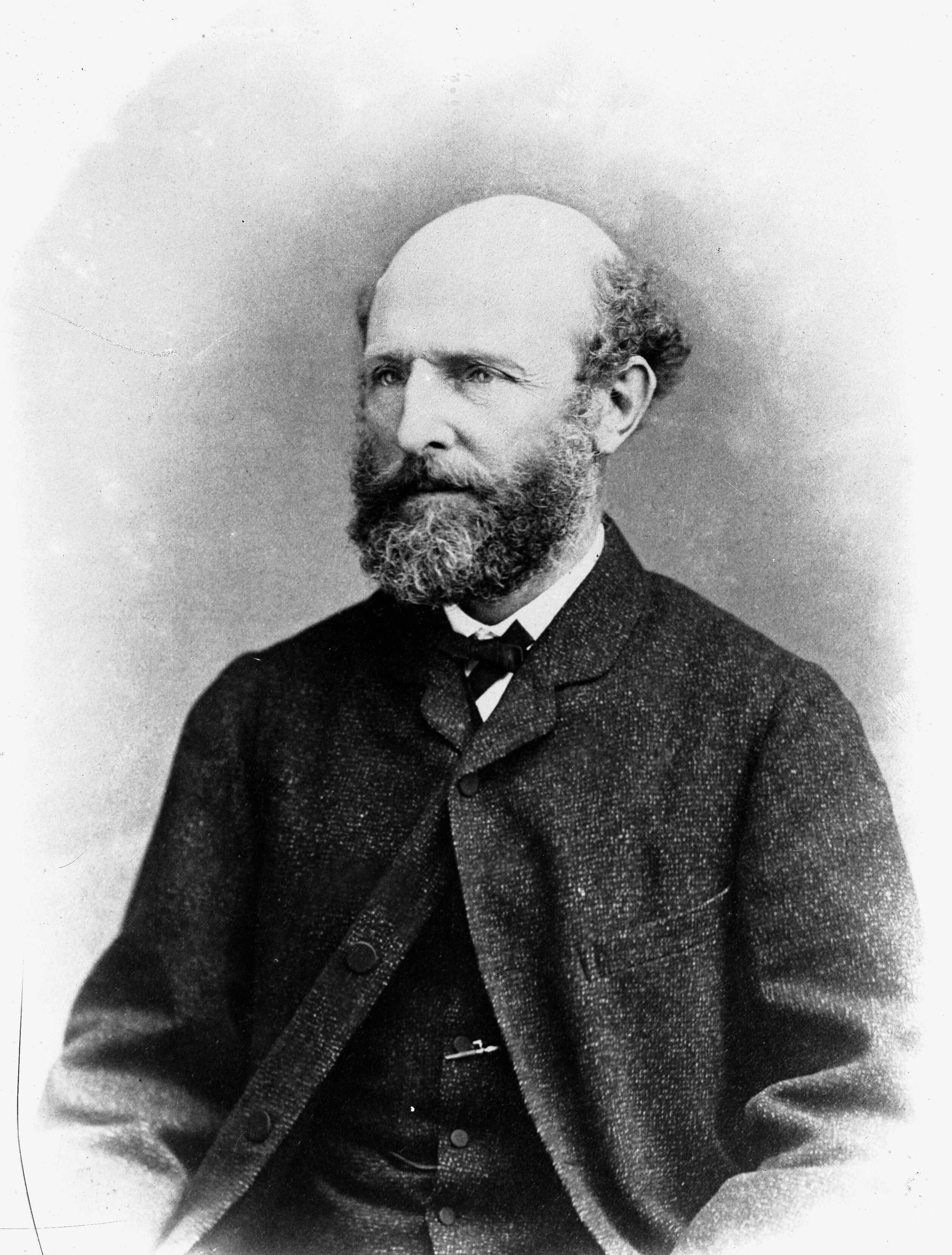 Photograph of a photographic formal portrait of James Coutts Crawford, explorer, settler and geologist. Taken by an unidentified photographer.